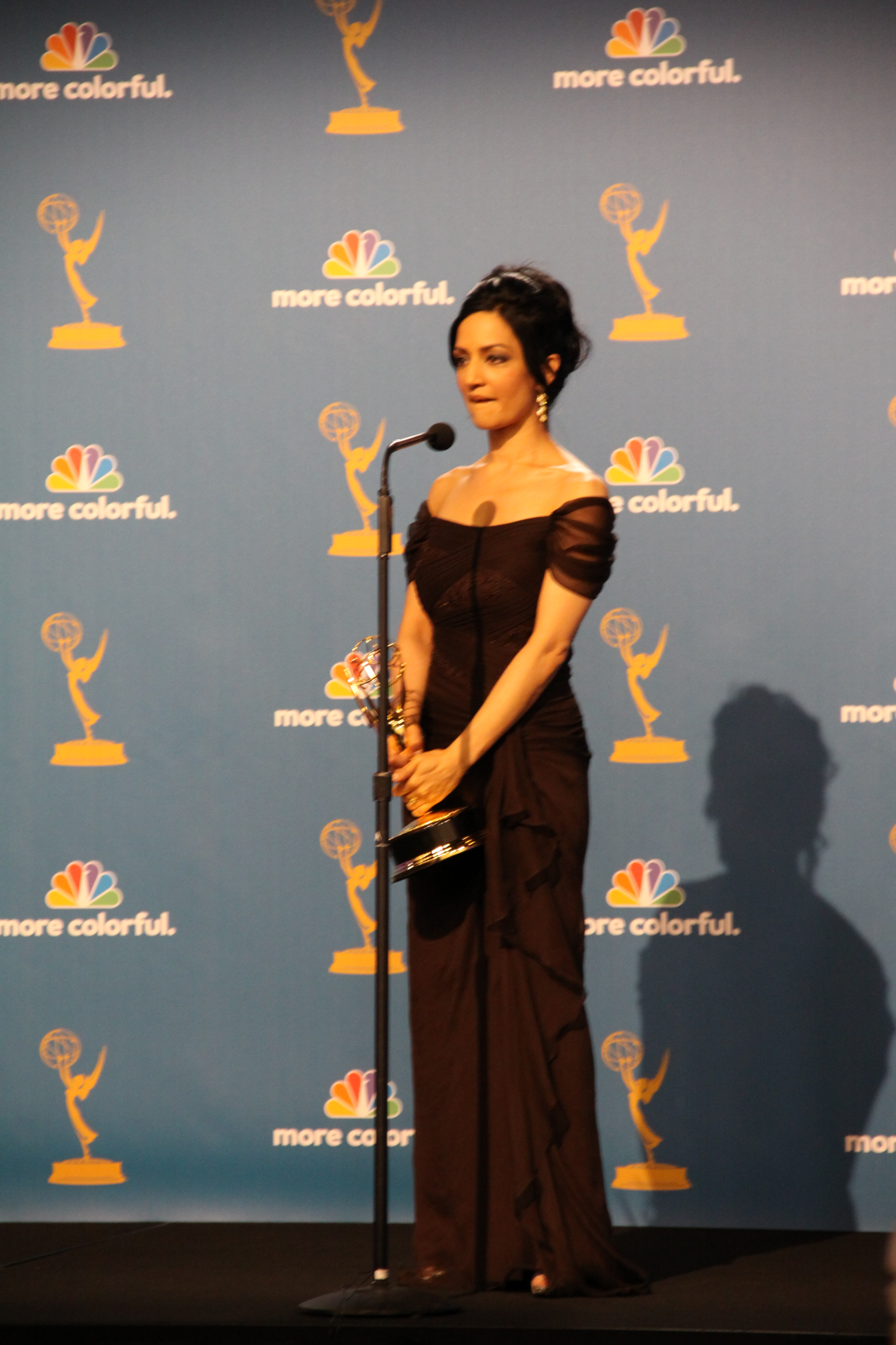 Archie Panjabi wins Emmy for OUTSTANDING SUPPORTING ACTRESS IN A DRAMA SERIES in CBS' 'The Good Wife'